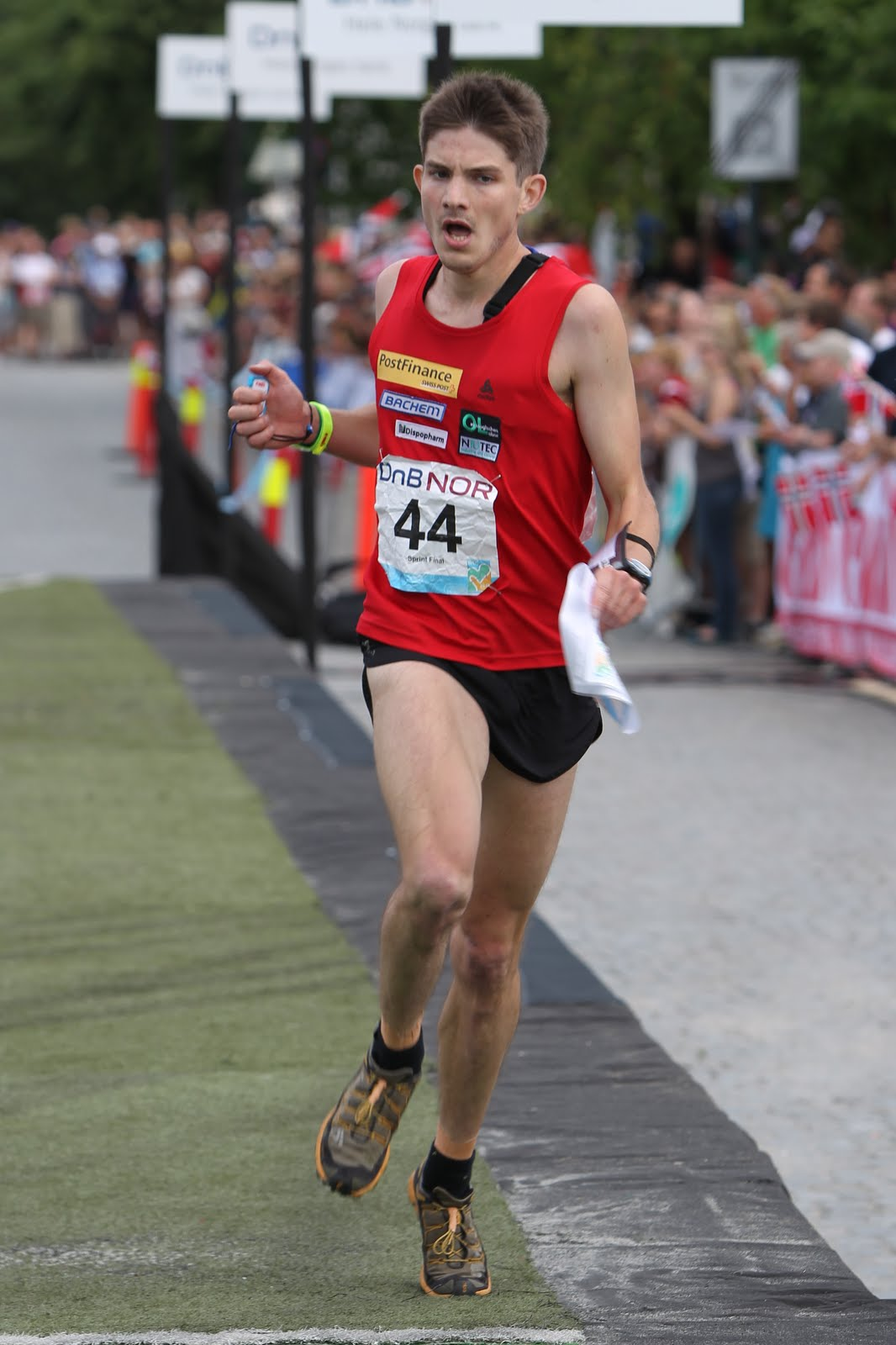 Fabian Hertner at World Orienteering Championships 2010